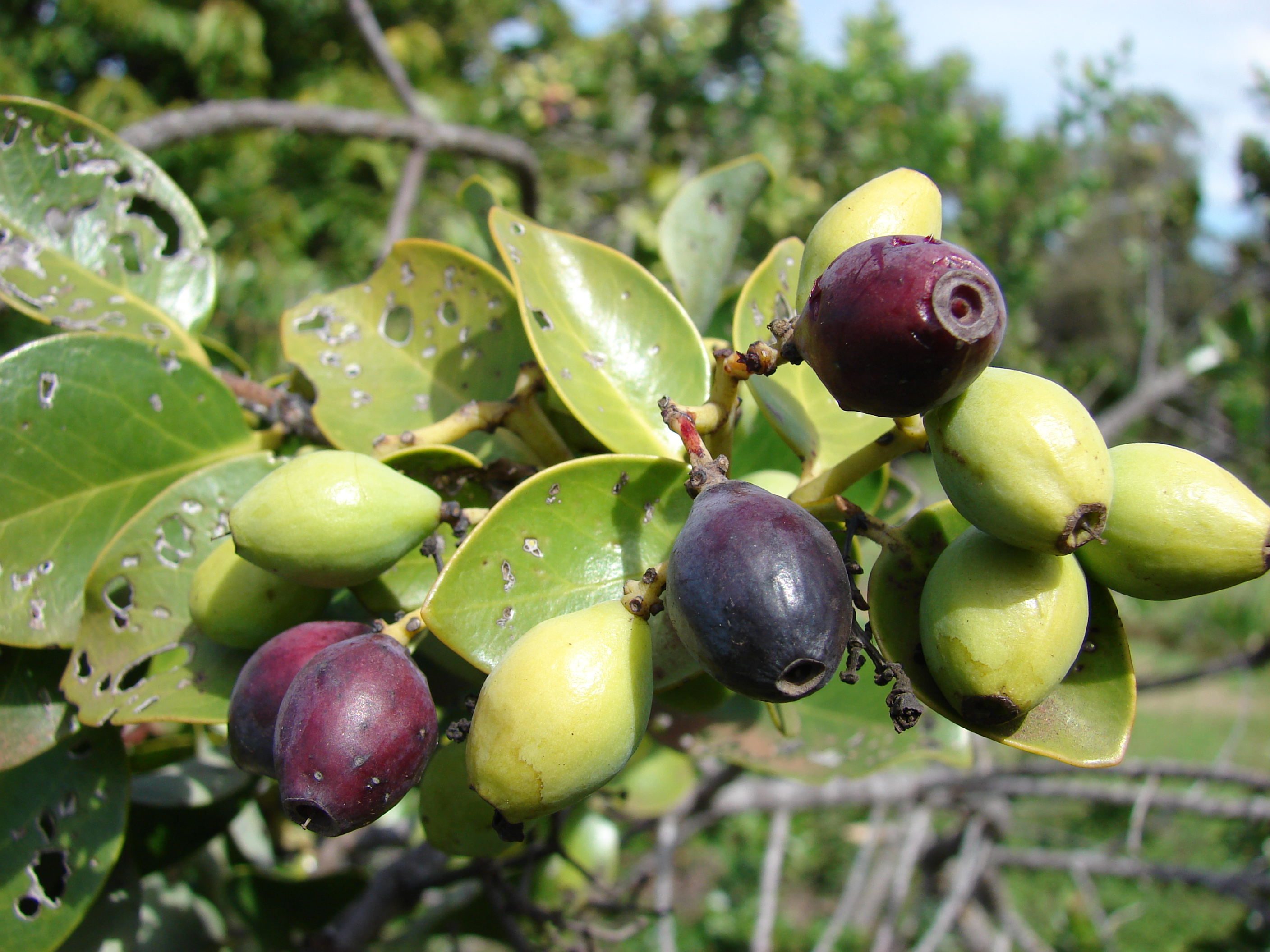 Santalum ellipticum (fruit and leaves). Location: Maui, Sun Yat Sen Park Keokea